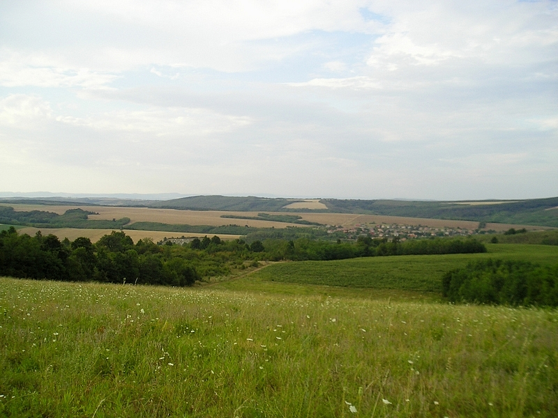 Felsőpetény, Hungary